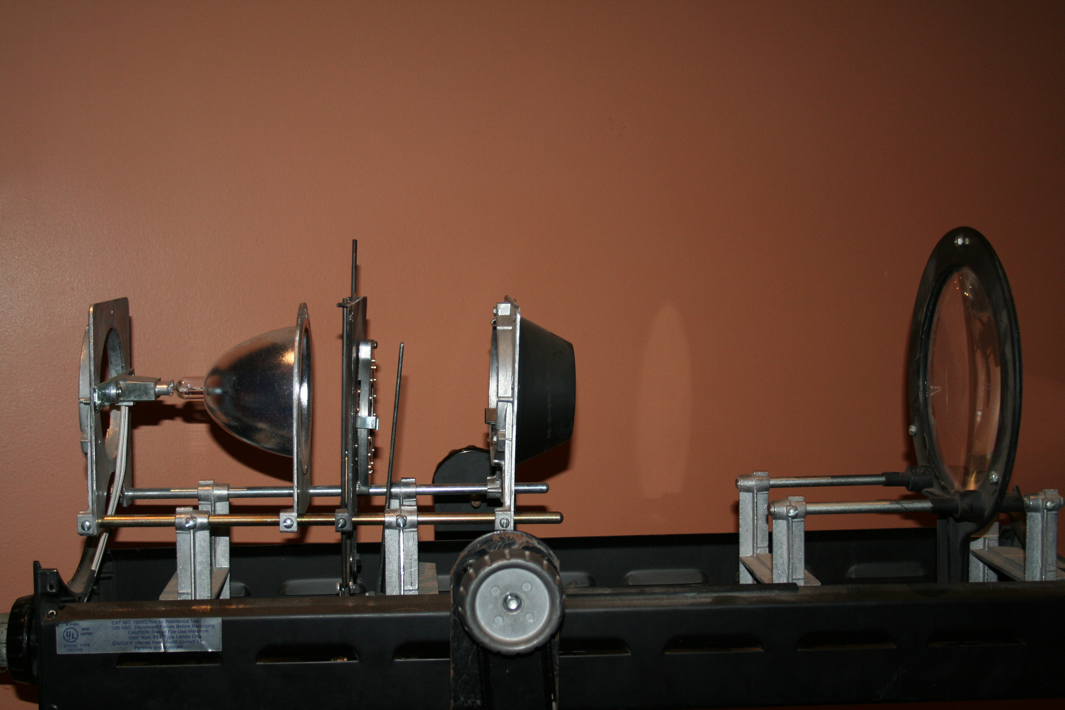 Optics of an Altman 1000Q Followspot. Image self created from followspot undergoing repair for education purposes at the Summer Performing Arts Company and Red River High School in Grand Forks, ND. From left to right- Lamp, Reflector, Shutter/Iris assembly, Fixed lens, Adjustable lens. -JWGreen 20:55, 26 May 2007 (UTC)